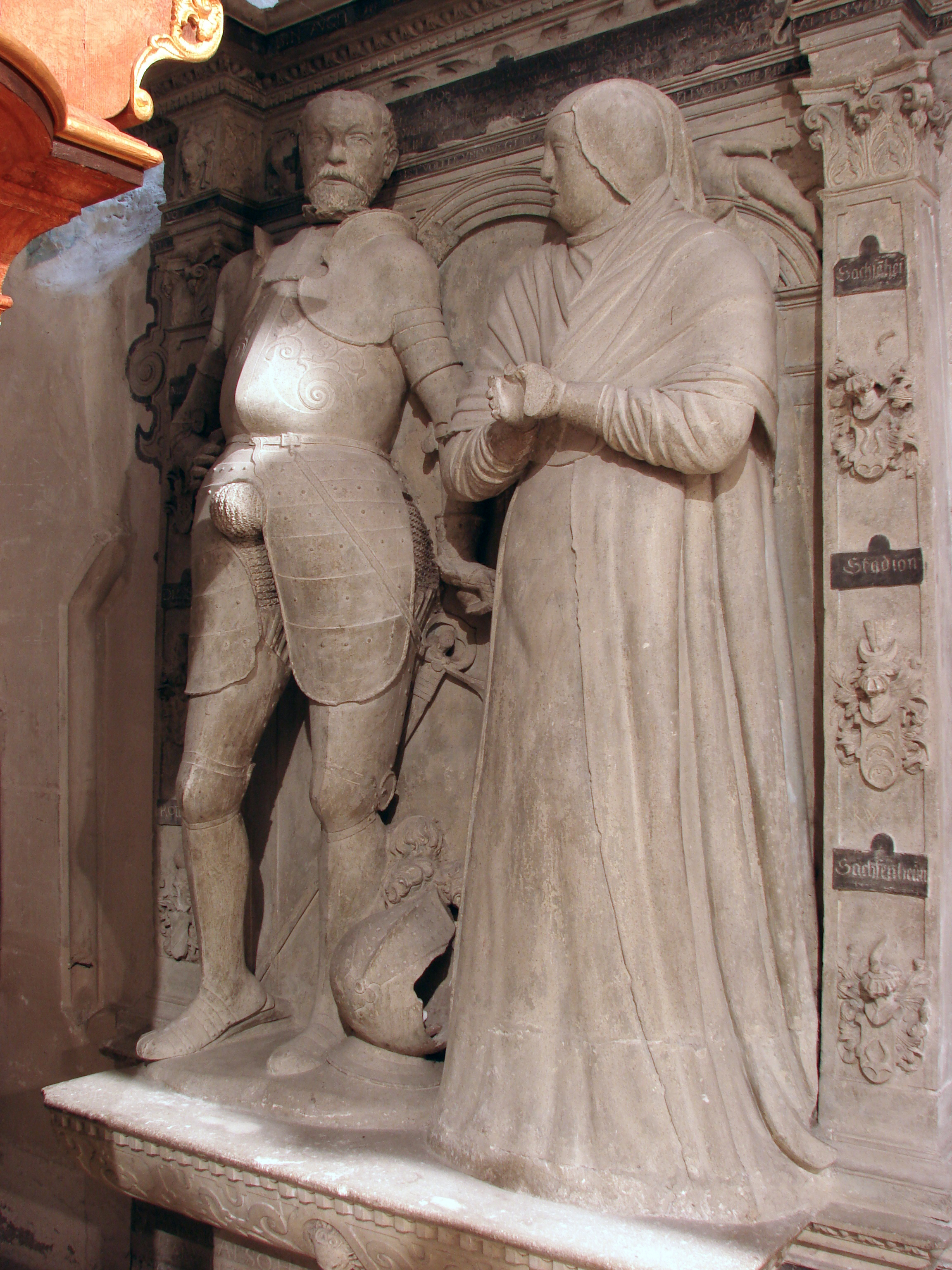 Freiberg am Neckar, epitaph for the noble couple Hans-Georg von Hallwyl, †1593, and Maria Magdalena von Freyberg